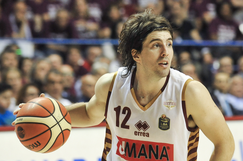 Ariel Filloy with the jersey of Reyer Venezia